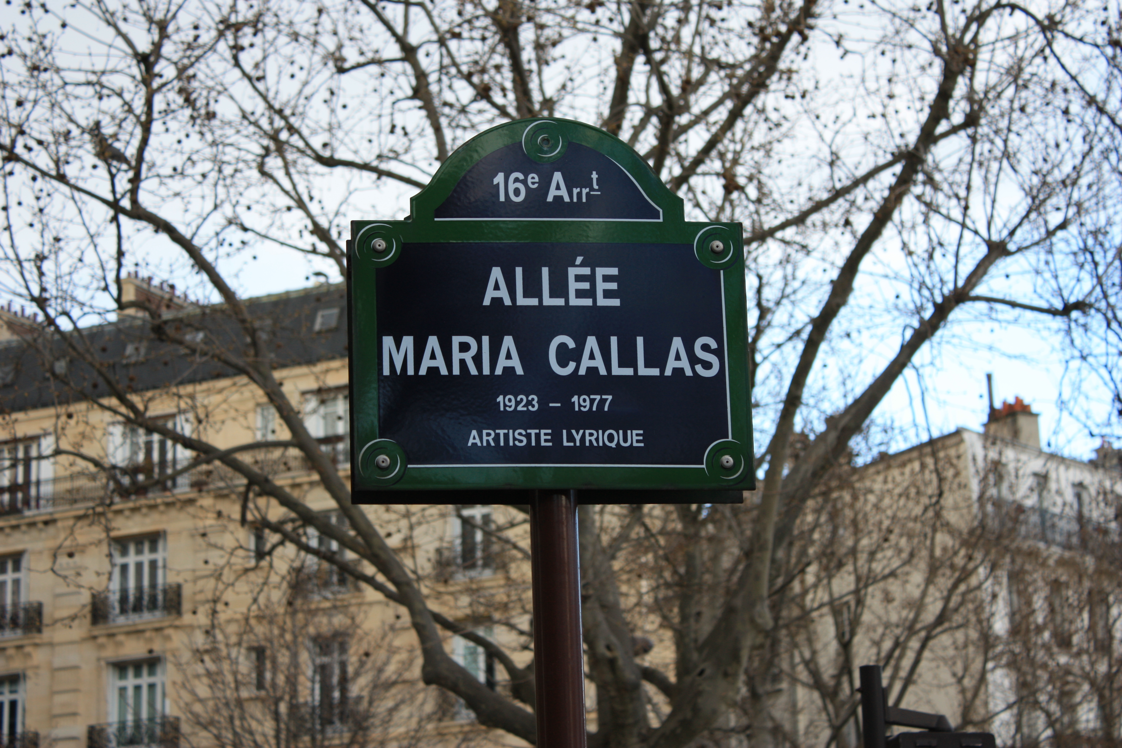 Allee Maria Callas, Paris.